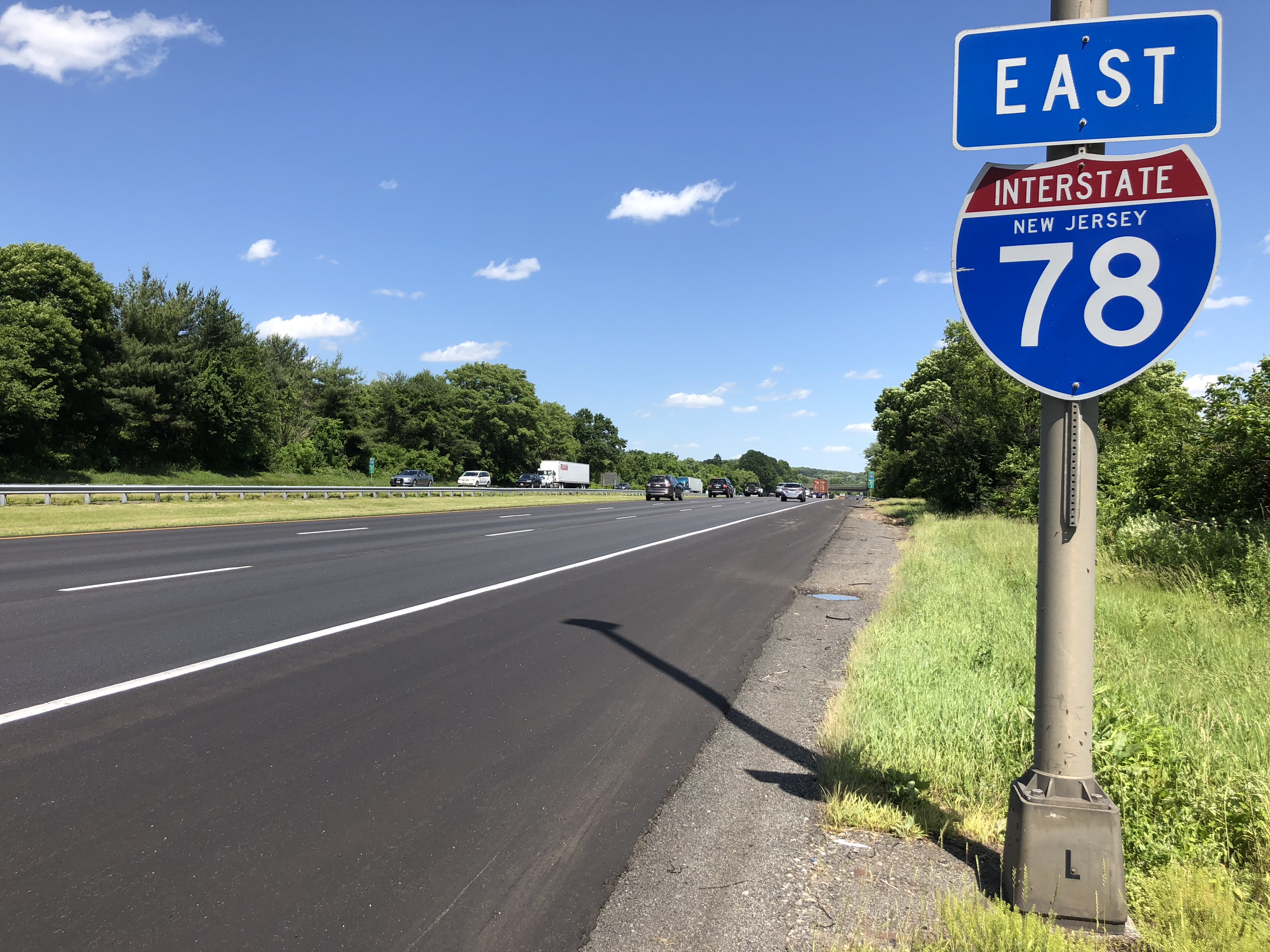 View east along Interstate 78 (Phillipsburg-Newark Expressway) between Exit 18 and Exit 24 in Clinton Township, Hunterdon County, New Jersey